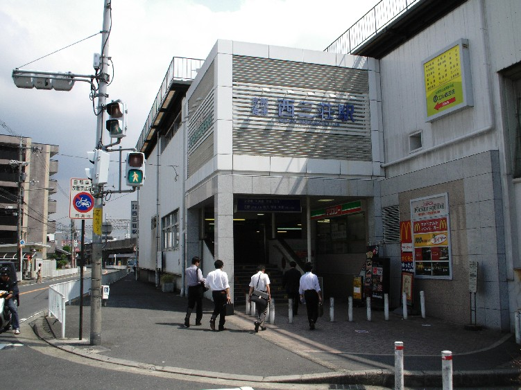 Keihan Nishisanso Station